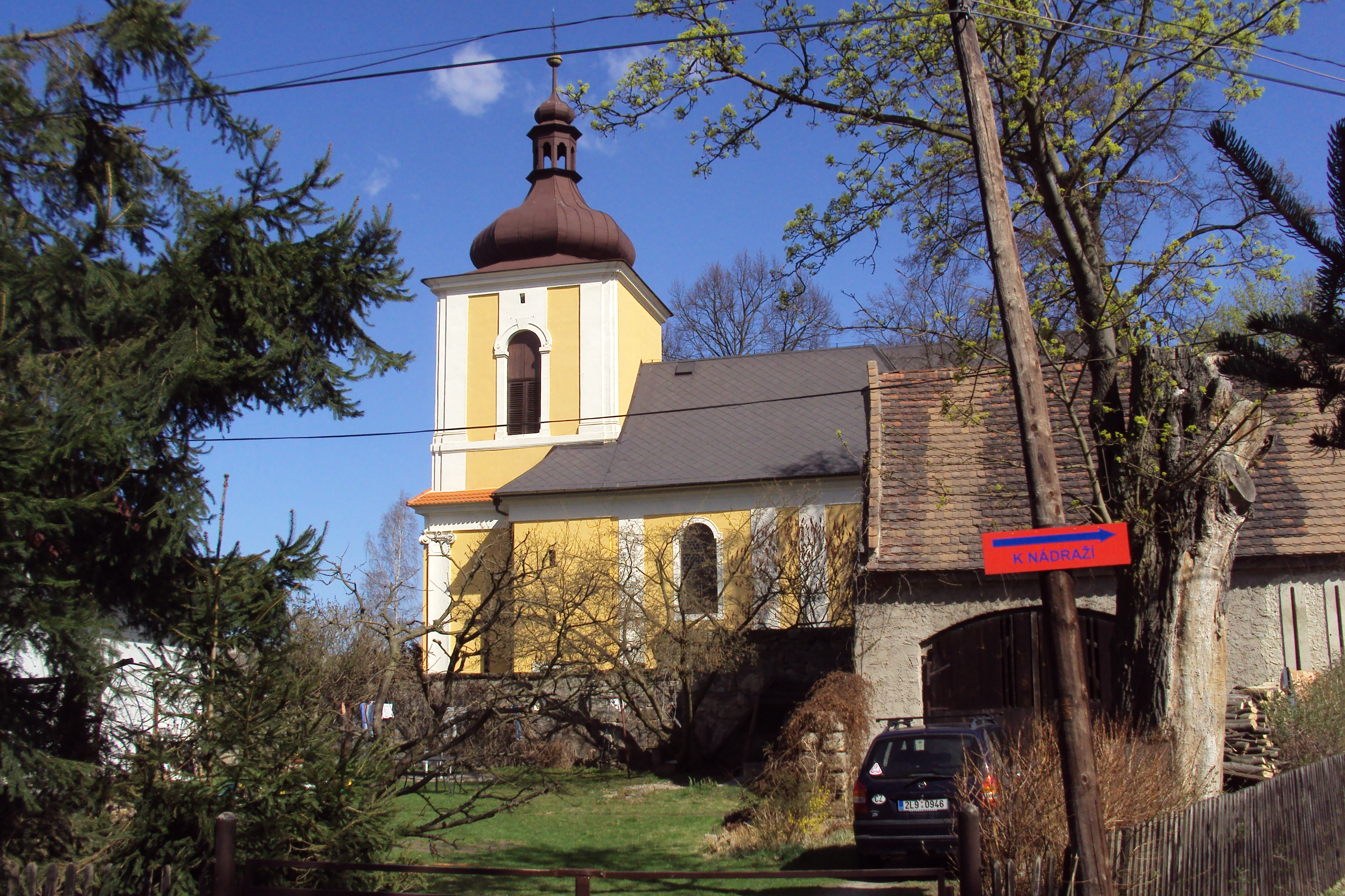 Church of the Assumption of rhe Virgin Mary in village of Okna, Česká Lípa District, Czech Republic